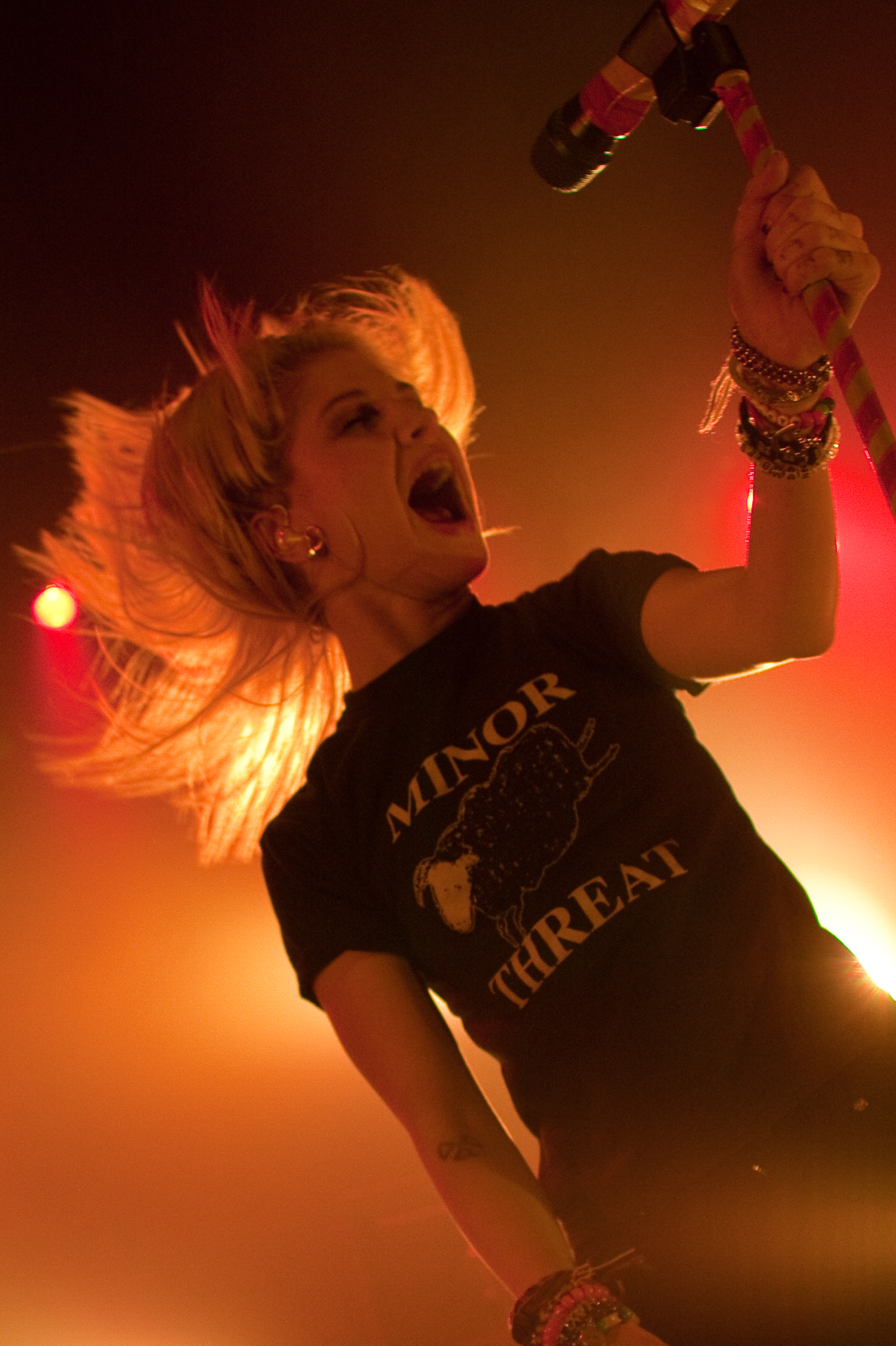 Hayley Williams performing with Paramore at the Warfield